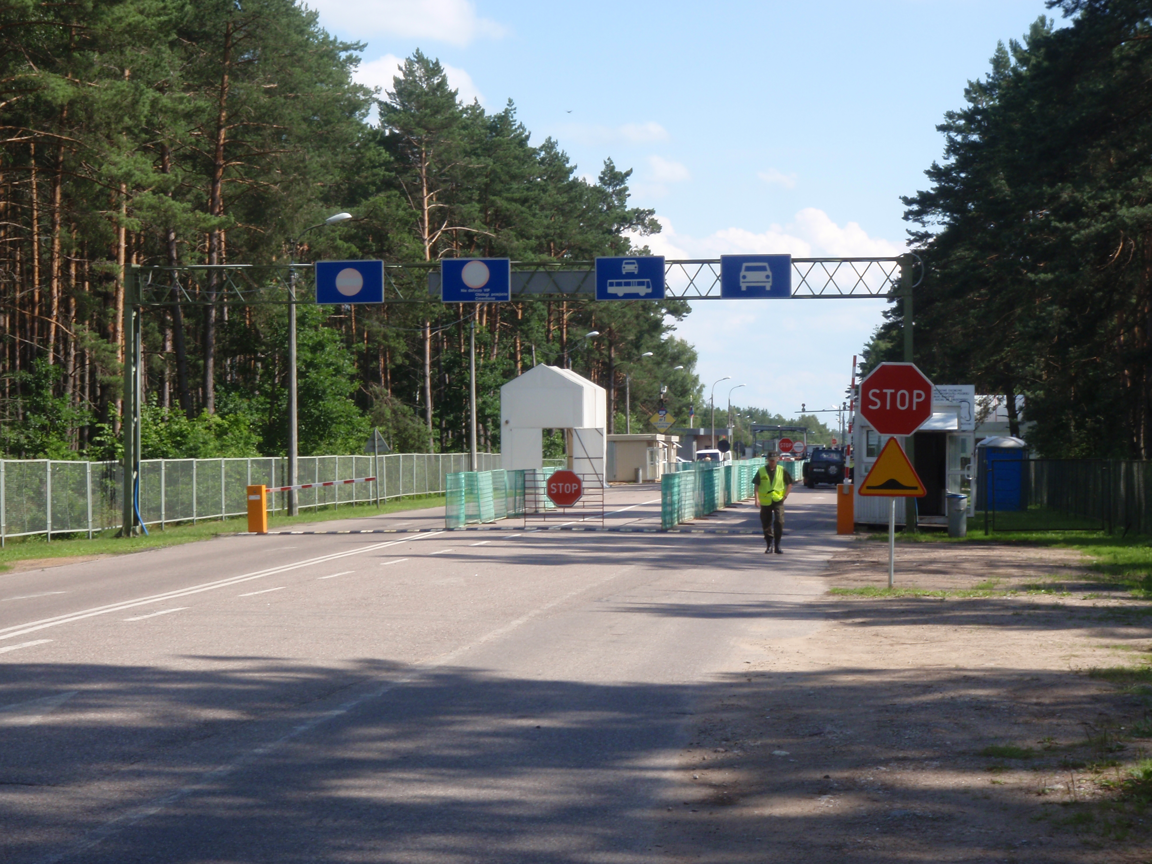 Peschatka(by)-Polowce(pl) border checkpoint - checkpoint, Border Guard officer